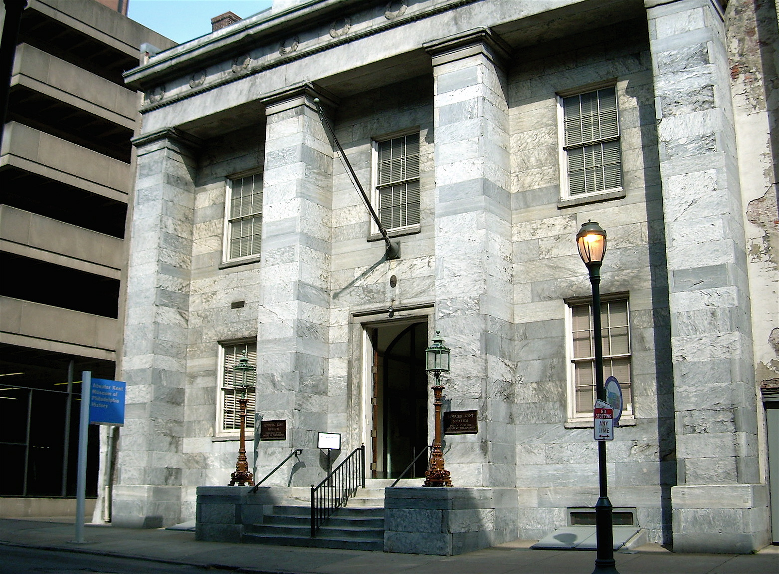 Willjay, taken by me. The Atwater Kent Museum of Philadelphia in 2008.